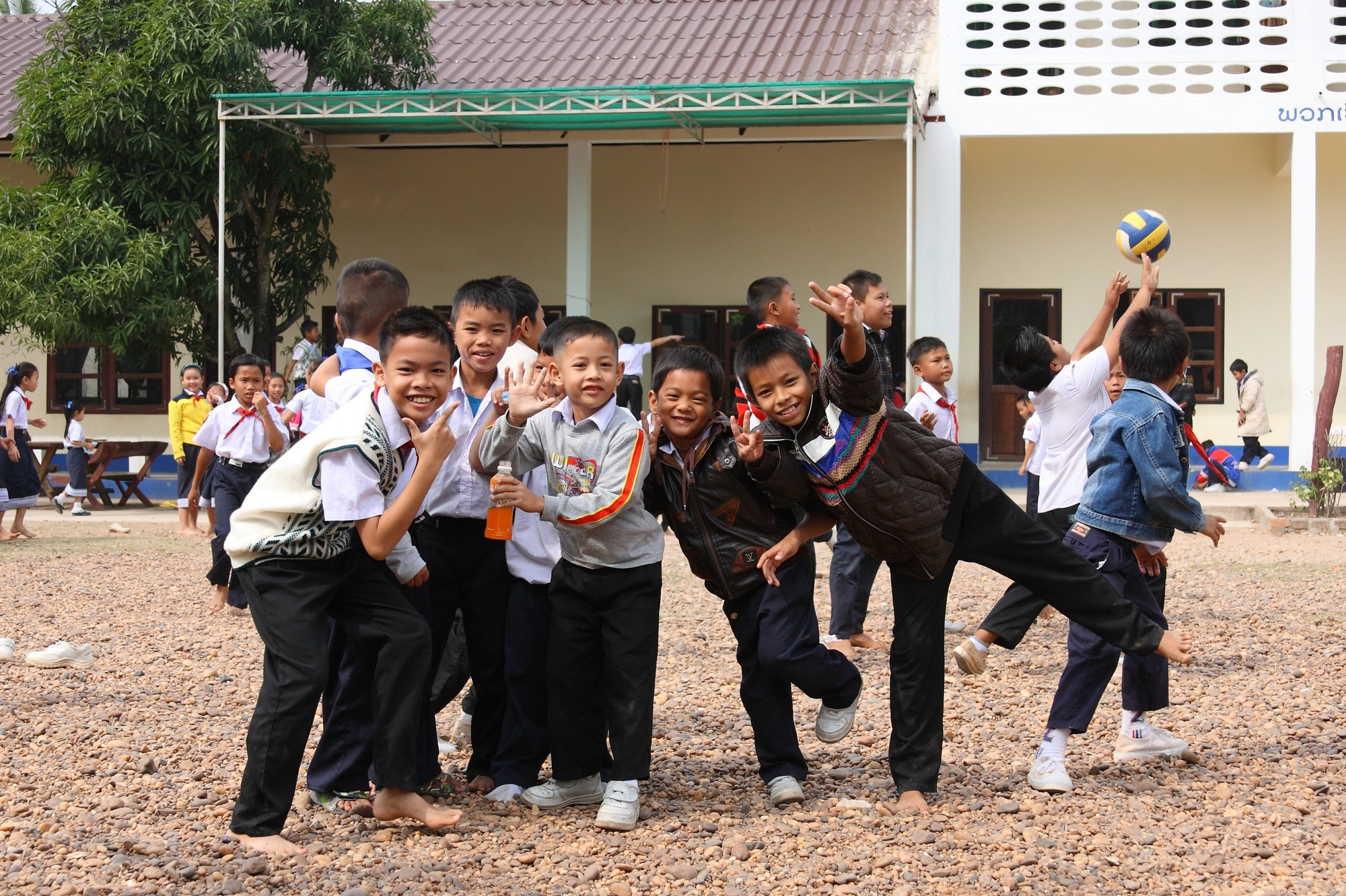 Schoolchildren in Savannakhet, Laos